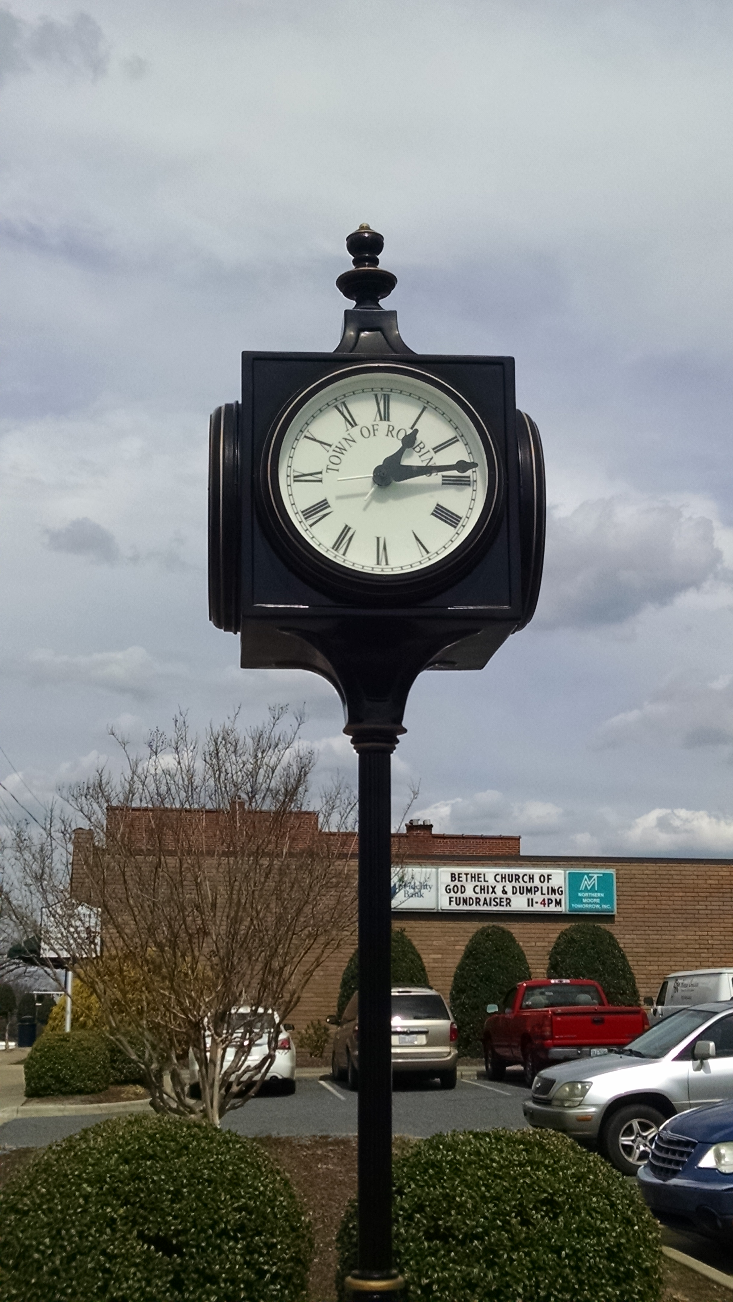 Clock in downtown Robbins, North Carolina